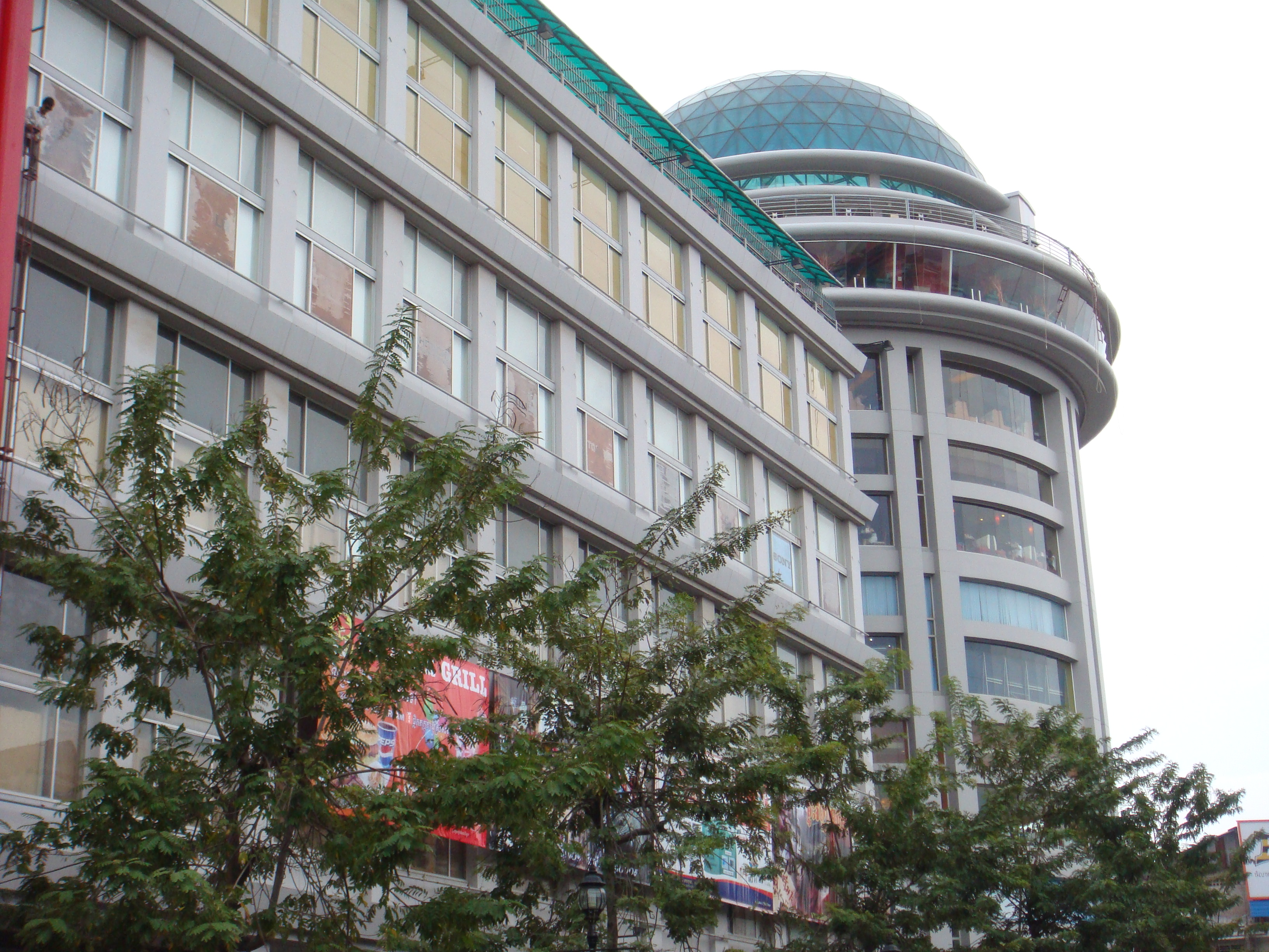 Sorya Shopping Centre Cambodia